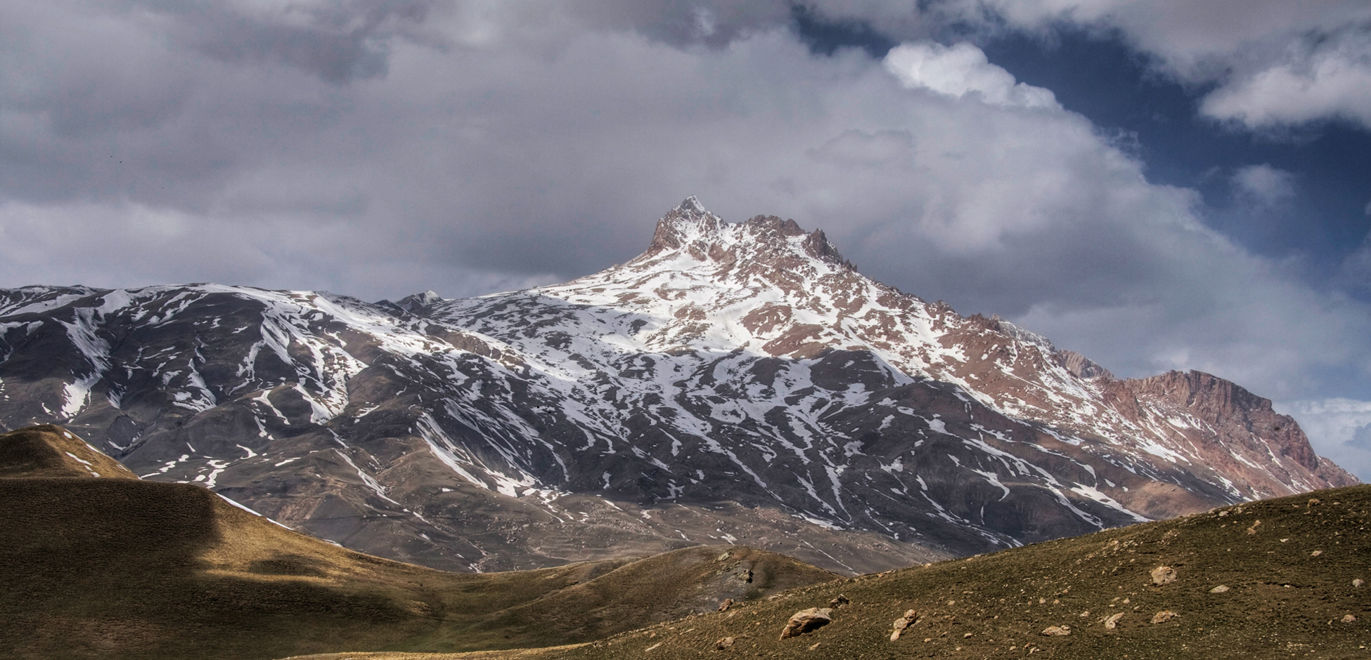 Shalbuz-Dag